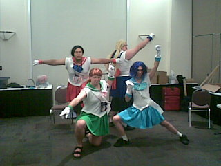 photograph of four Guys mtf crossplaying in Sailor Scout uniforms at Sogen con 2008 ( doing the Ginyu Force pose from Dragon Ball Z